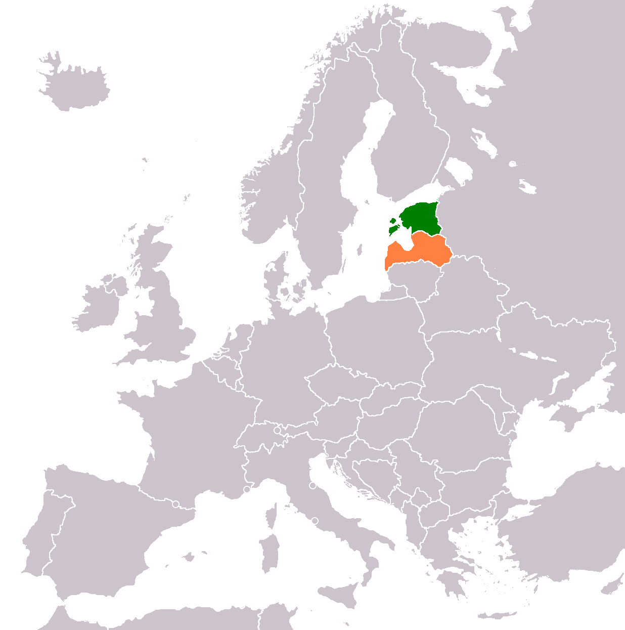 Licence free map I made out of a licence free blank map.